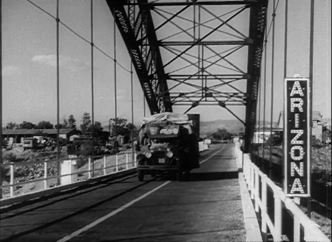 Trailer for the 1940 black and white film The Grapes of Wrath. Truck on a bridge.